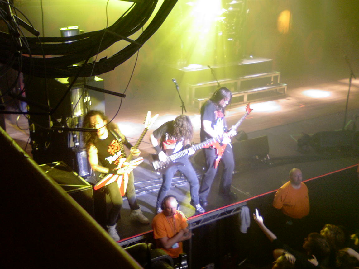 Trivium performing on the Unholy Alliance Tour, At the Sheffield Civic Hall from left to right Matt Heafy, Paolo Gregoletto and Corey Beaulieu.